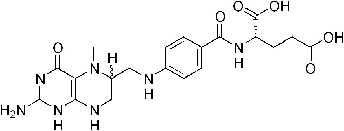 Chemical structure of 5-methyltetrahydrofolate (5-methyltetrahydrofolic acid)